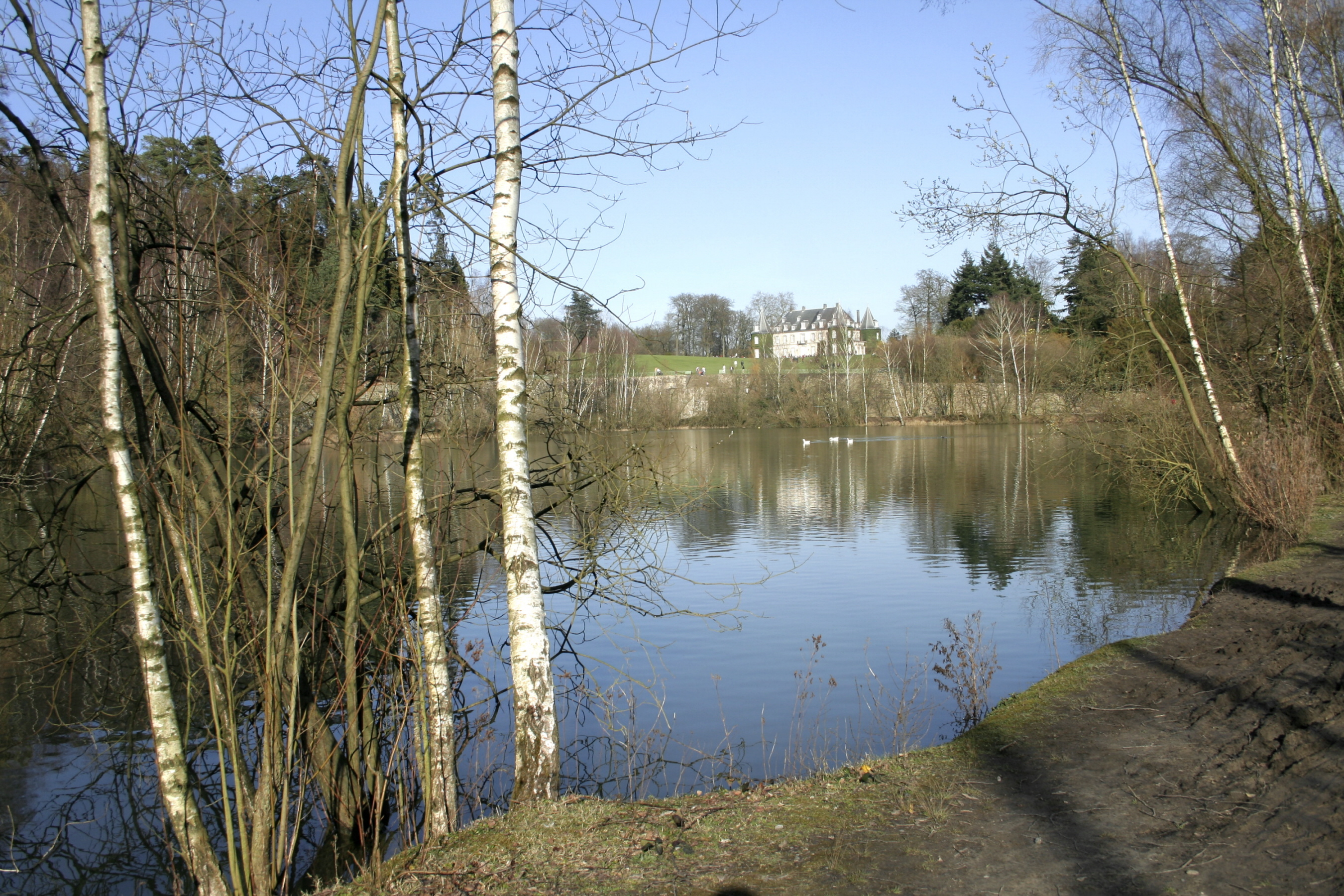 La Hulpe (Belgium), the park of the Solvay castle.